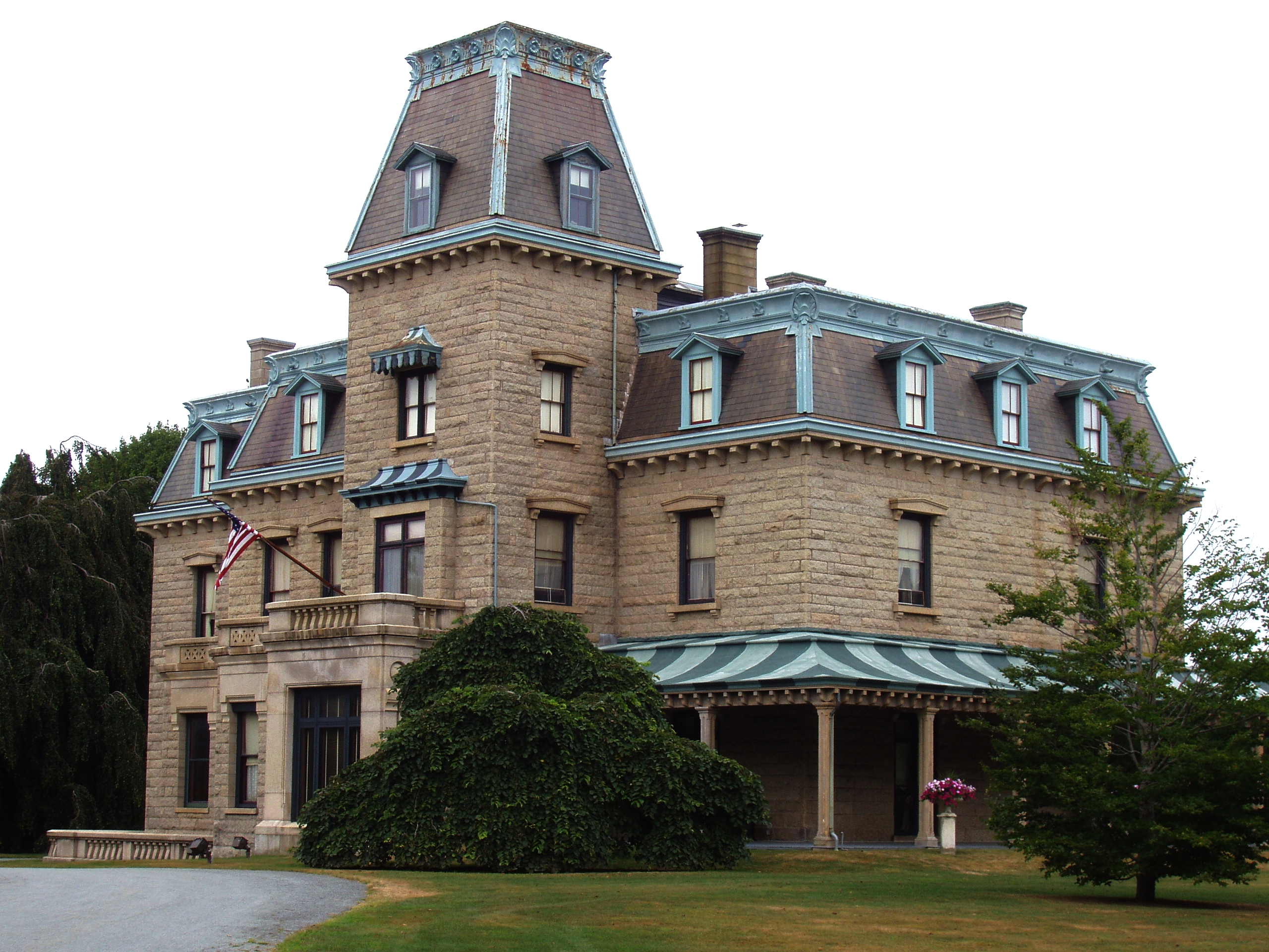 Chateau-sur-Mer, Newport, Rhode Island. Oblique view from right front. Photograph taken by me, August 2005.